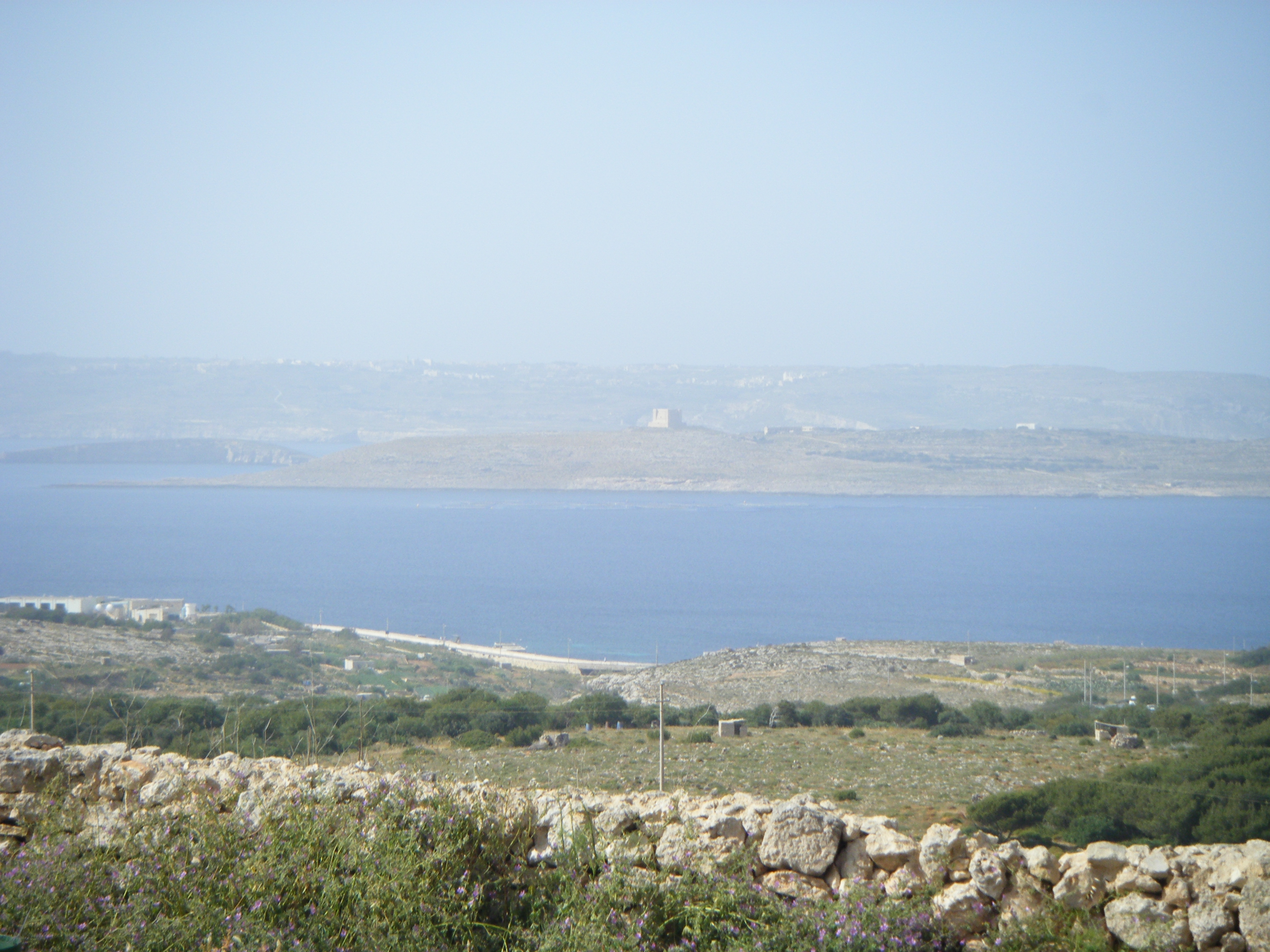 Comino as seen from St. Agatha's Tower